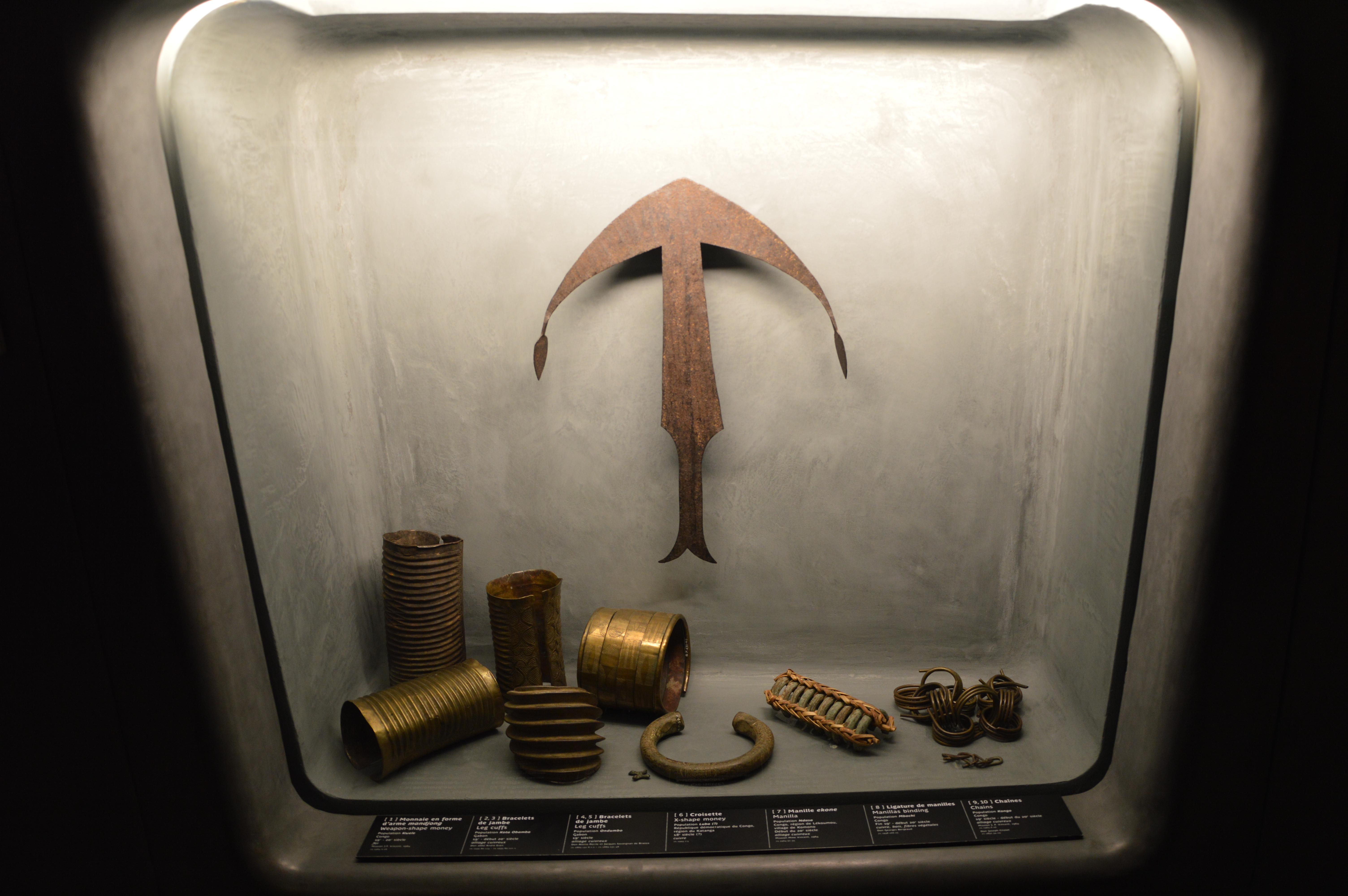 1. Weapon-shape money. Congo. 2-3 Leg cuffs. Kota Obamba. Gabon. 4-5 Leg cuffs. Ondumbo. Gabon. 6 X-shape money. Luba. Congo. 7 Manilla. Ndasa. Congo. 8 Manilla binding Mbochi. Congo. 9-10 Chains. Kongo. Congo.